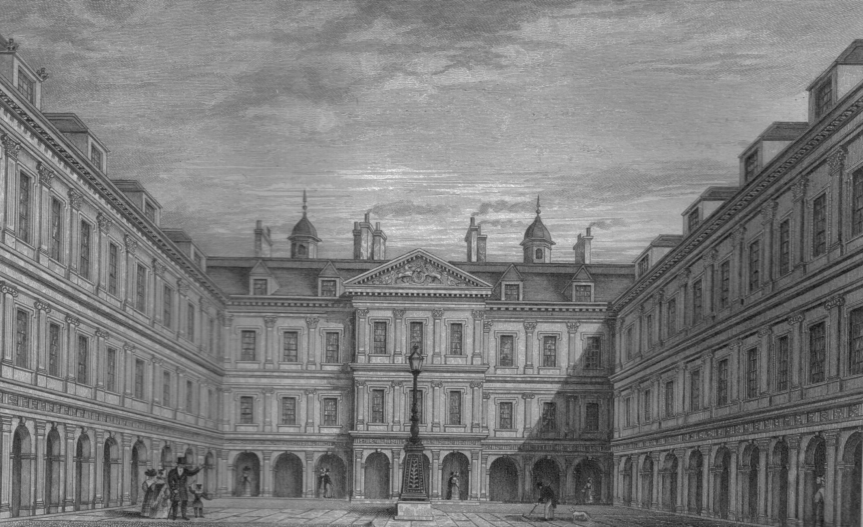 The courtyard of Holyrood Palace in the 1850s